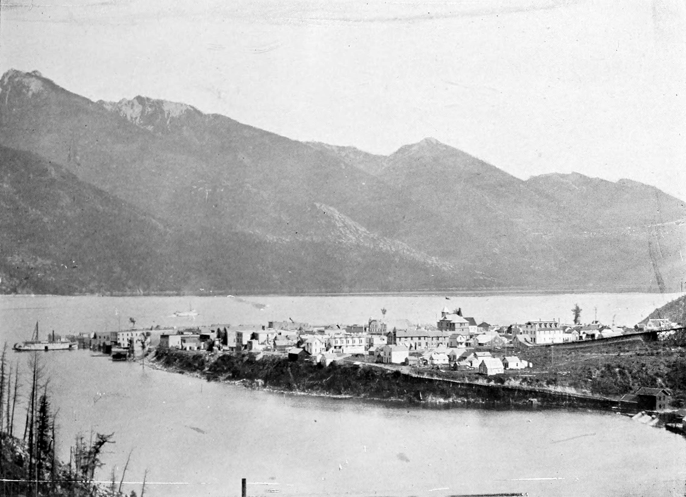 Kaslo, British Columbia. Title: Mining camps of British Columbia : a souvenir of Rossland, Nelson, Greenwood, Phoenix, Grand Forks, Kaslo, Revelstoke, Cranbrook, Fernie and the Kootenay, Boundary and Crow's Nest Districts ; illustrated with fifty excellent views of typical scenes Year: 1900 (1900s) Authors: Subjects: Cities and towns Mining districts Publisher: Toronto : W.G. MacFarlane Text Appearing Before Image: ' Text Appearing After Image: Kaslo City Ironi the Noiihwest